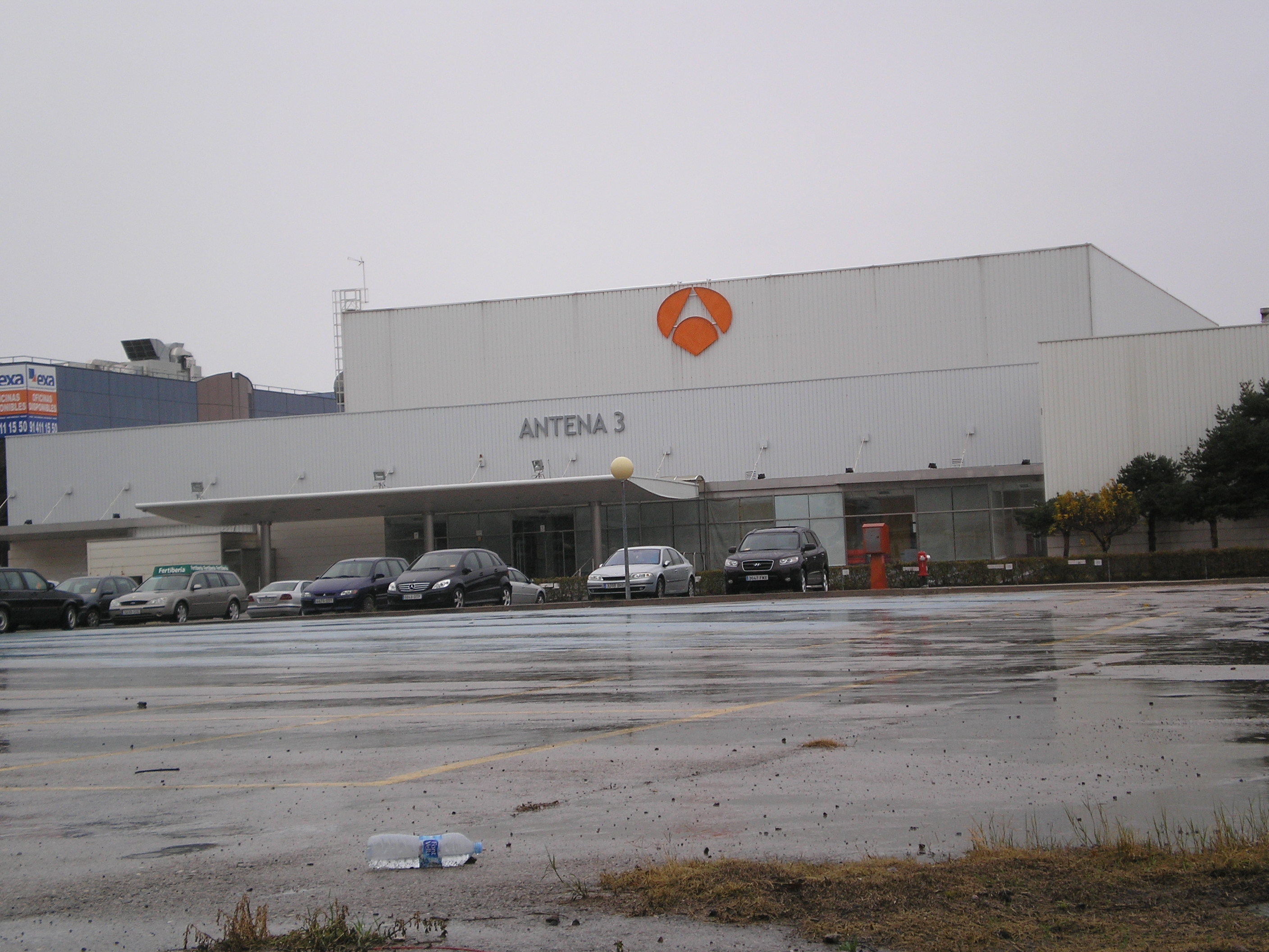 Antena 3 Theatre in San Sebastián de los Reyes, Madrid.